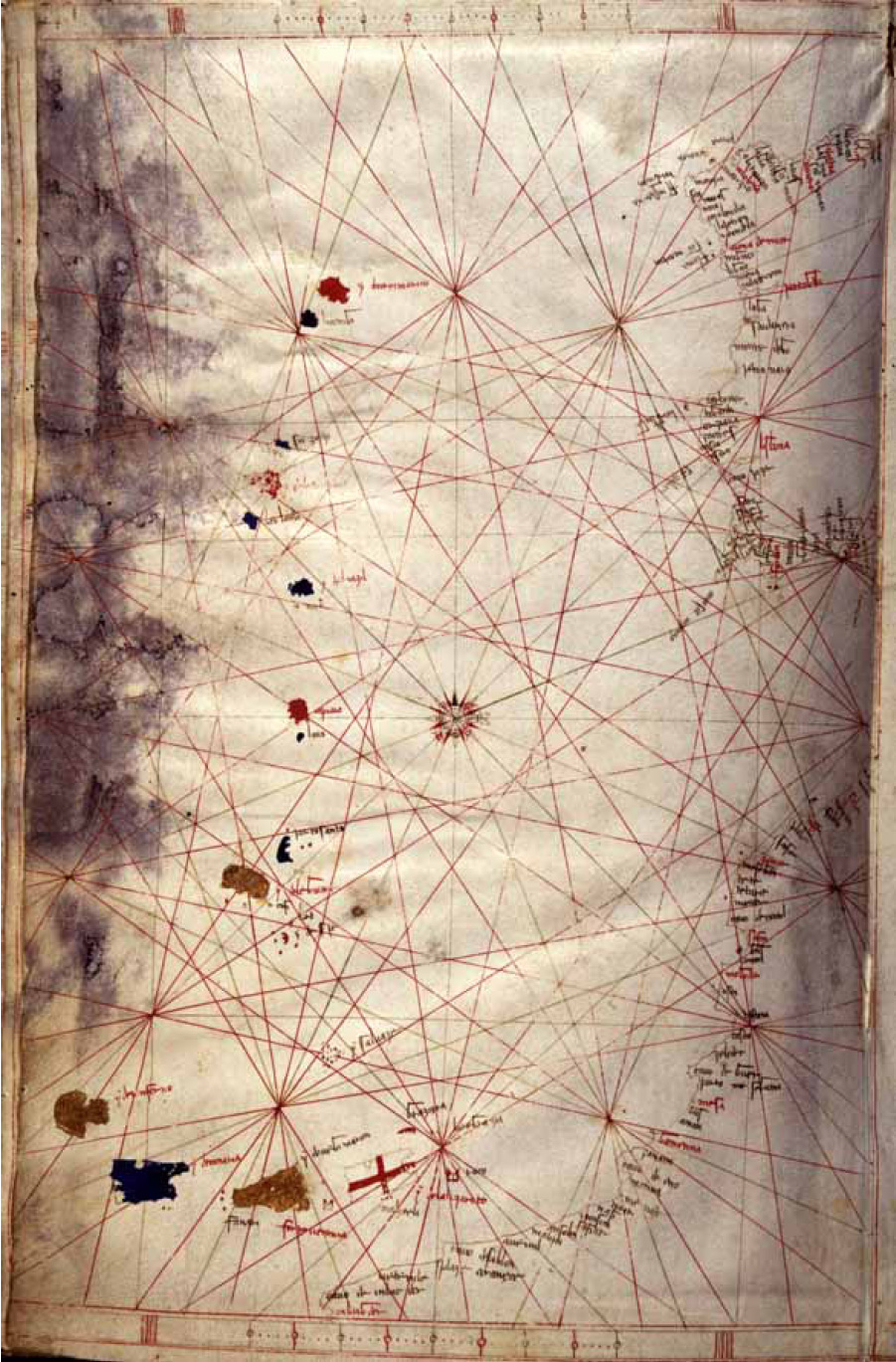 The fourth and final sheet of the four-sheet Corbitis Atlas ("Corbizzi"), a set of Italian portolan charts, believed to have been made by an anonymous Venetian cartographer, between 1384 and 1410. The atlas (Ms. It. VI 213) is held at the Biblioteca Nazionale Marciana in Venice, Italy. This 4th sheet (oriented with North on top) depicts the south Atlantic (from the Portuguese coast down to Cape Bojador in west Africa, and includes the Canary islands)